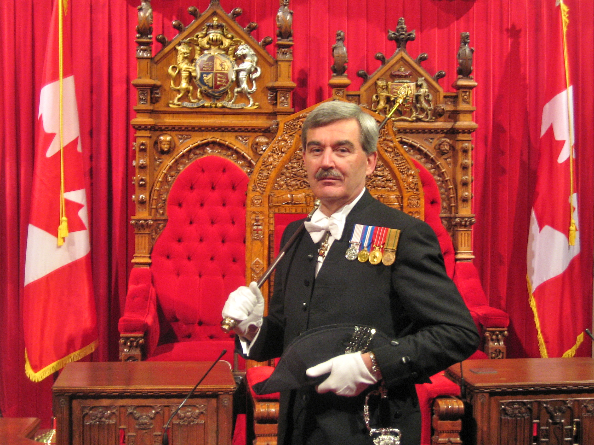 This is a picture of Kevin MacLeod taken in the Canadian Senate Chamber